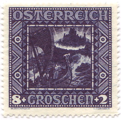 Austria Nr. 489 - Issued in 1926 to help children, with illustrations from the Nibelung legend (here Gunther navigating)